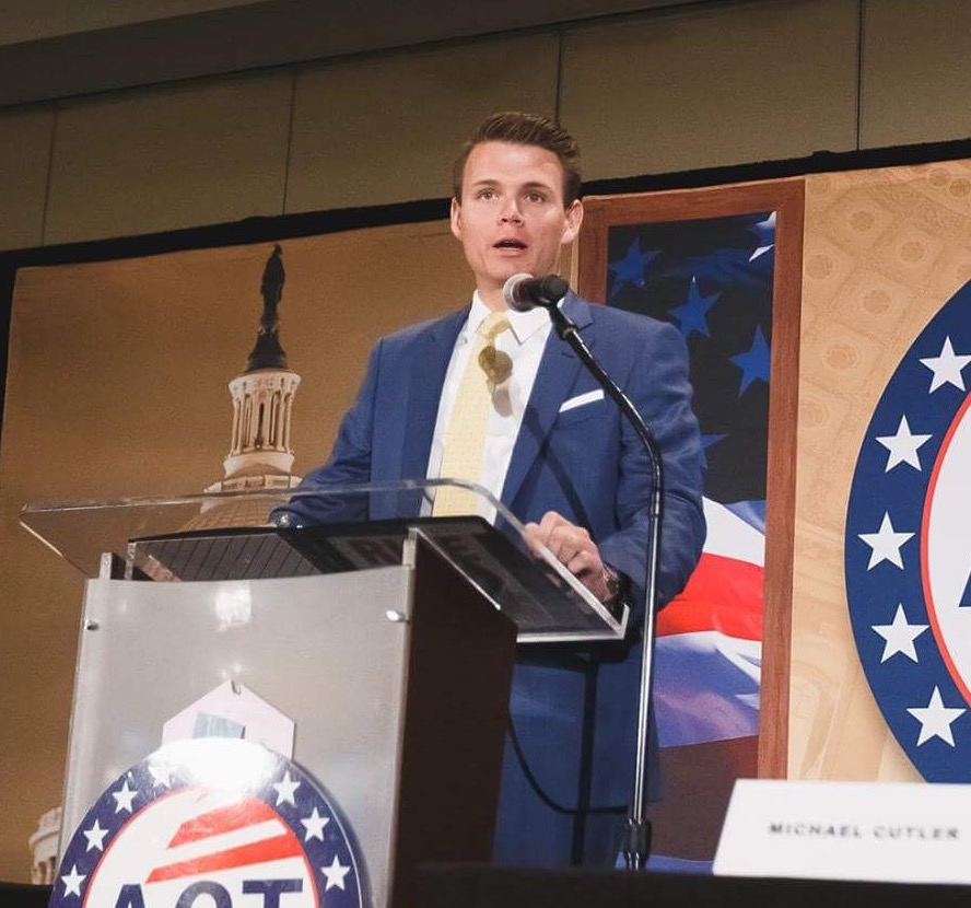 The groups founder, Ryan Fournier